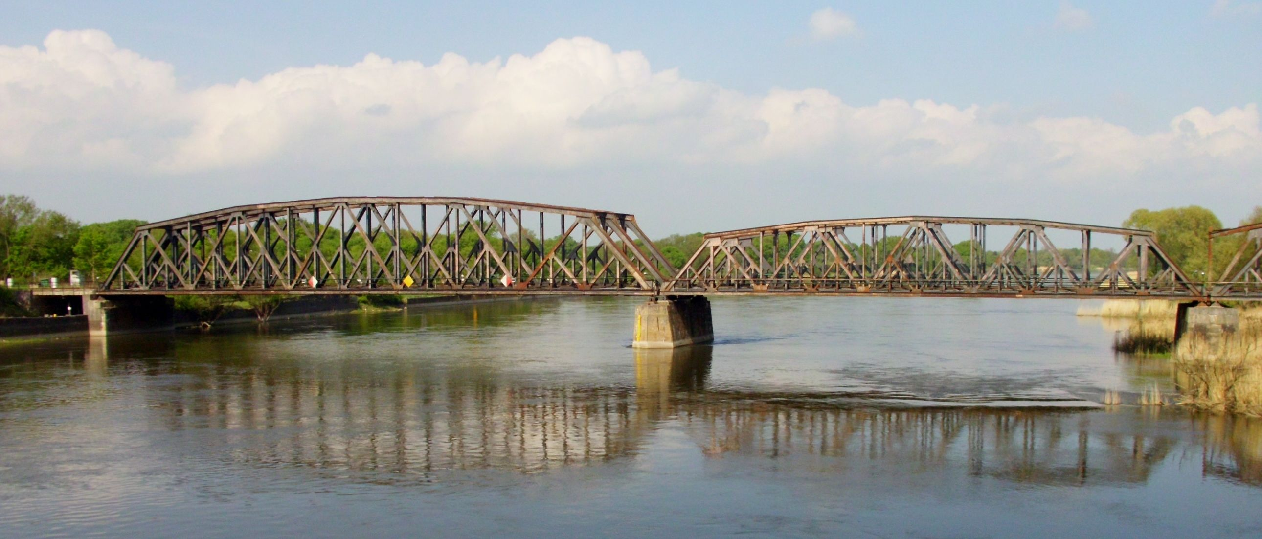 Railway bridge over the Oder river between Kuestrin-Kietz Oderinsel (Germany) and Kostrzyn (Poland)